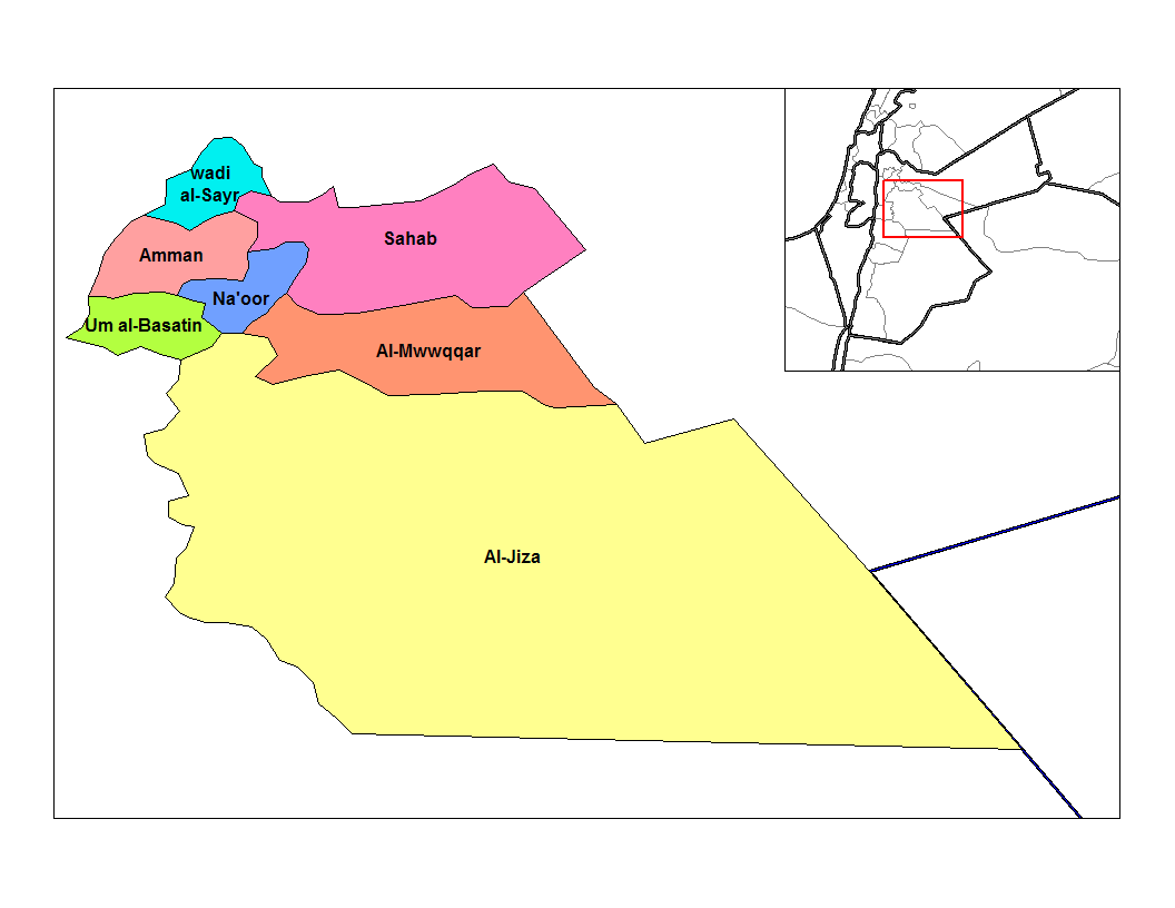 Map of the nahias of Amman governorate in Jordan. Created by Rarelibra 21:01, 27 December 2006 (UTC) for public domain use, using MapInfo Professional v8.5 and various mapping resources.